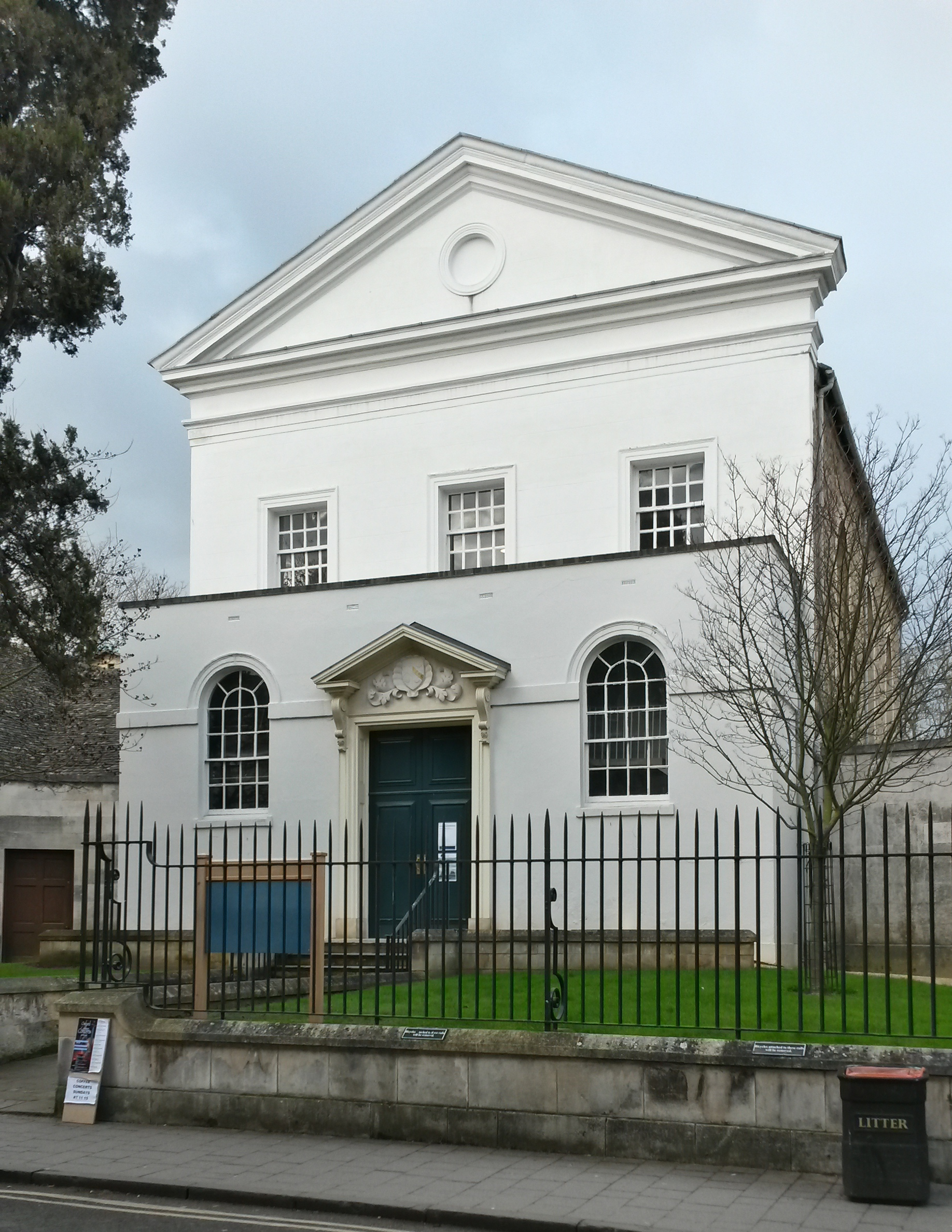 The Holywell Music Room in Oxford.